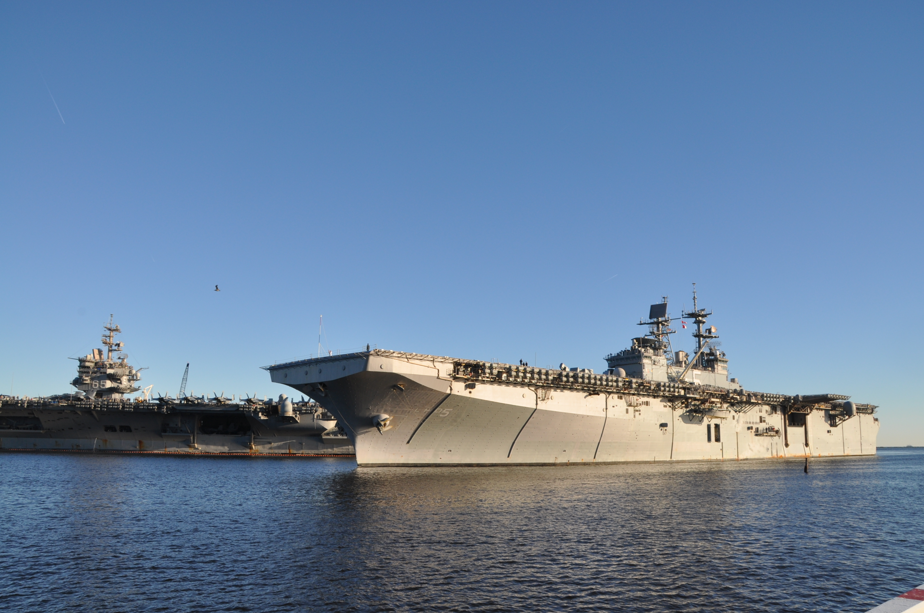 The amphibious assault ship USS Bataan (LHD 5) arrives at Naval Station Mayport to prepare for the Navy Marine Corps Classic basketball game between the University of Florida Gators and the Georgetown University Hoya, Nov. 9 during Jacksonville Military Appreciation Week. (U.S. Navy photo by Lt. Cmdr. Corey Barker/Released)